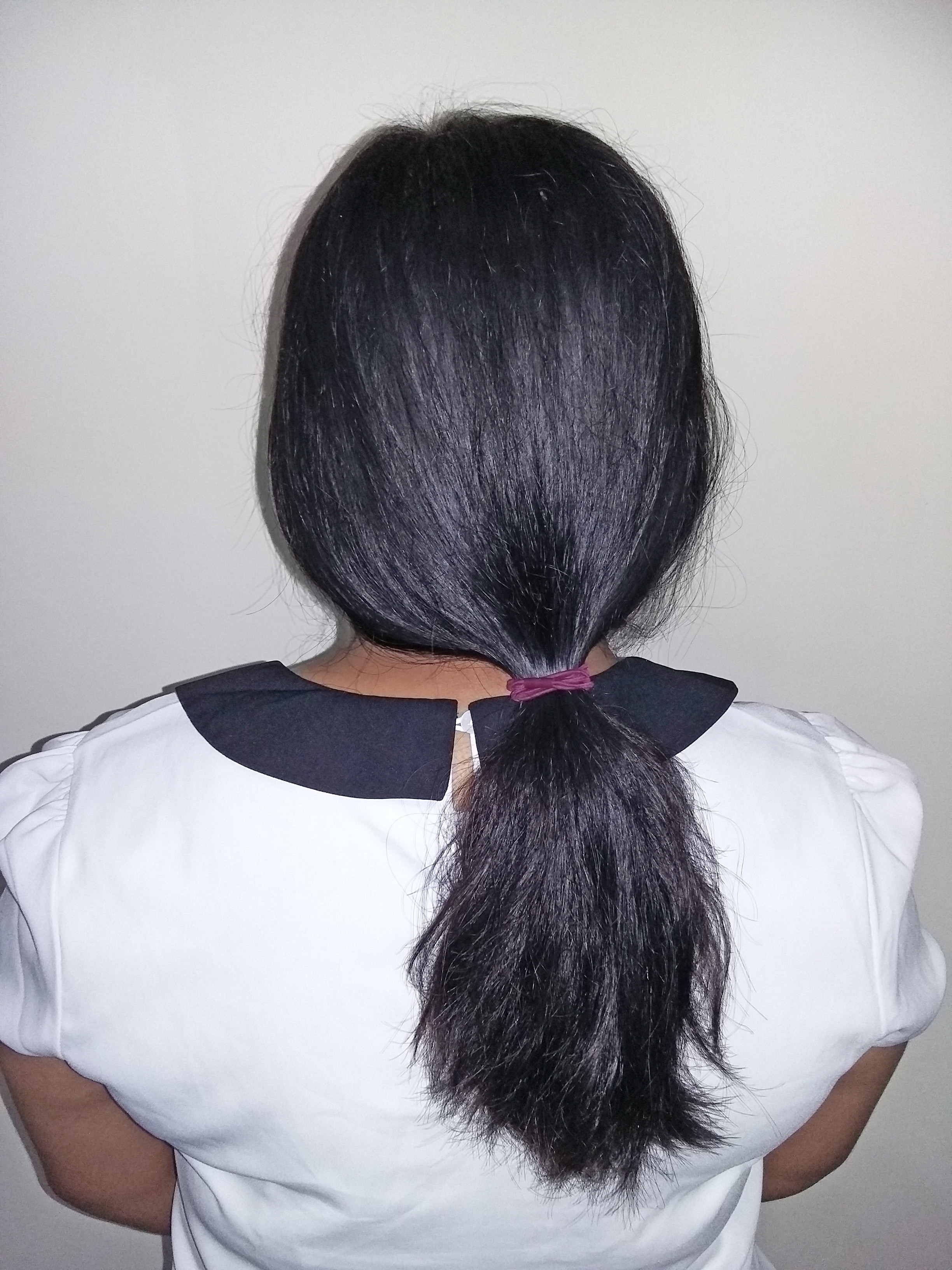 Girl with long black hair (ponytail), rear view